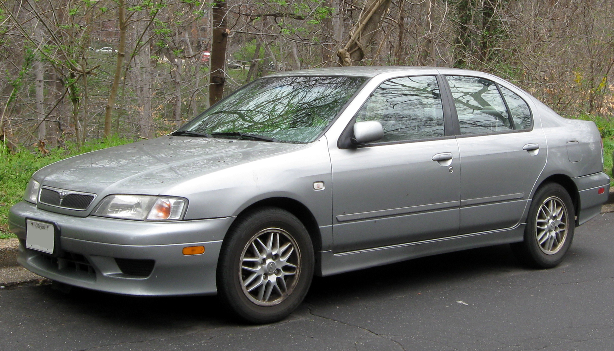 1999-2002 Infiniti G20 photographed in Washington, D.C., USA.